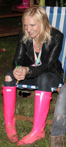 crop of Jo Whiley sitting on a deck chair wearing pink wellies from photo of 'Steve Lamacq, Jo Whiley and Zane Lowe backstage at BBC Introducing stage'